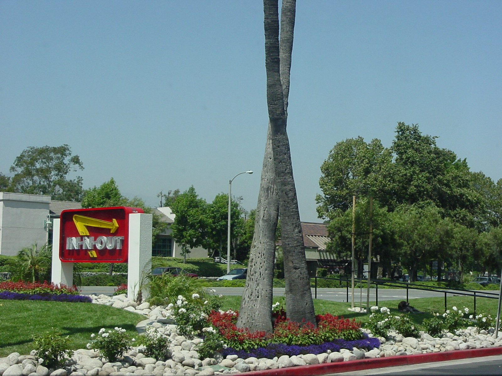 Palms trees in front of an In-n-Out Burger crossed in an 'x' (typical). Photo taken by me, Mike Smith (MIKEETC) and is free for all to use, copy, and modify for whatever reason 07.01.2005 GDFL)